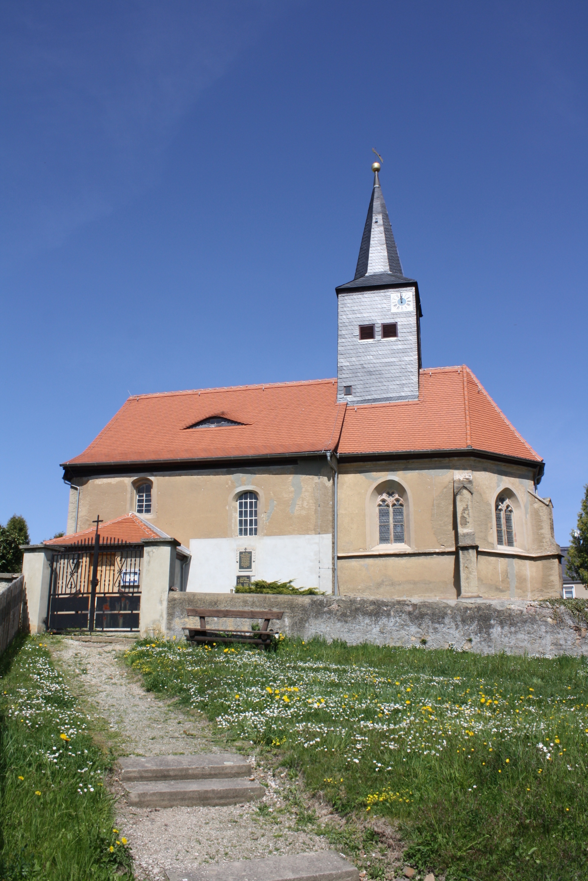 Church in Rückersdorf-Reust near Gera/Thuringia